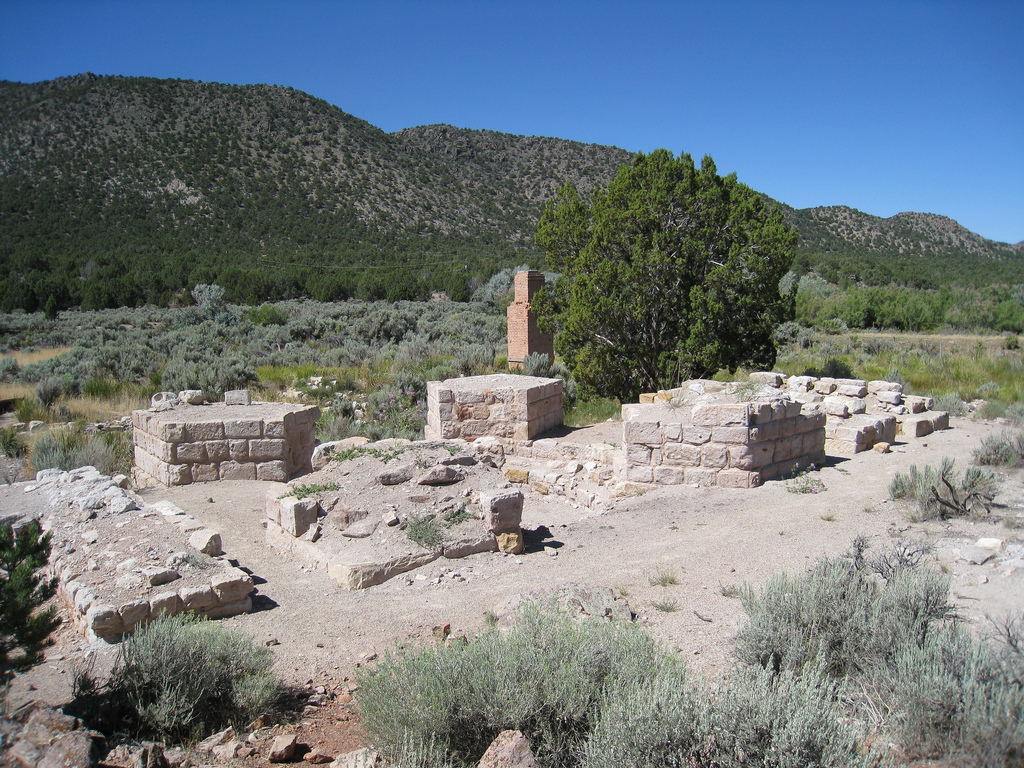 Ruins At Old Iron Town State Park Utah